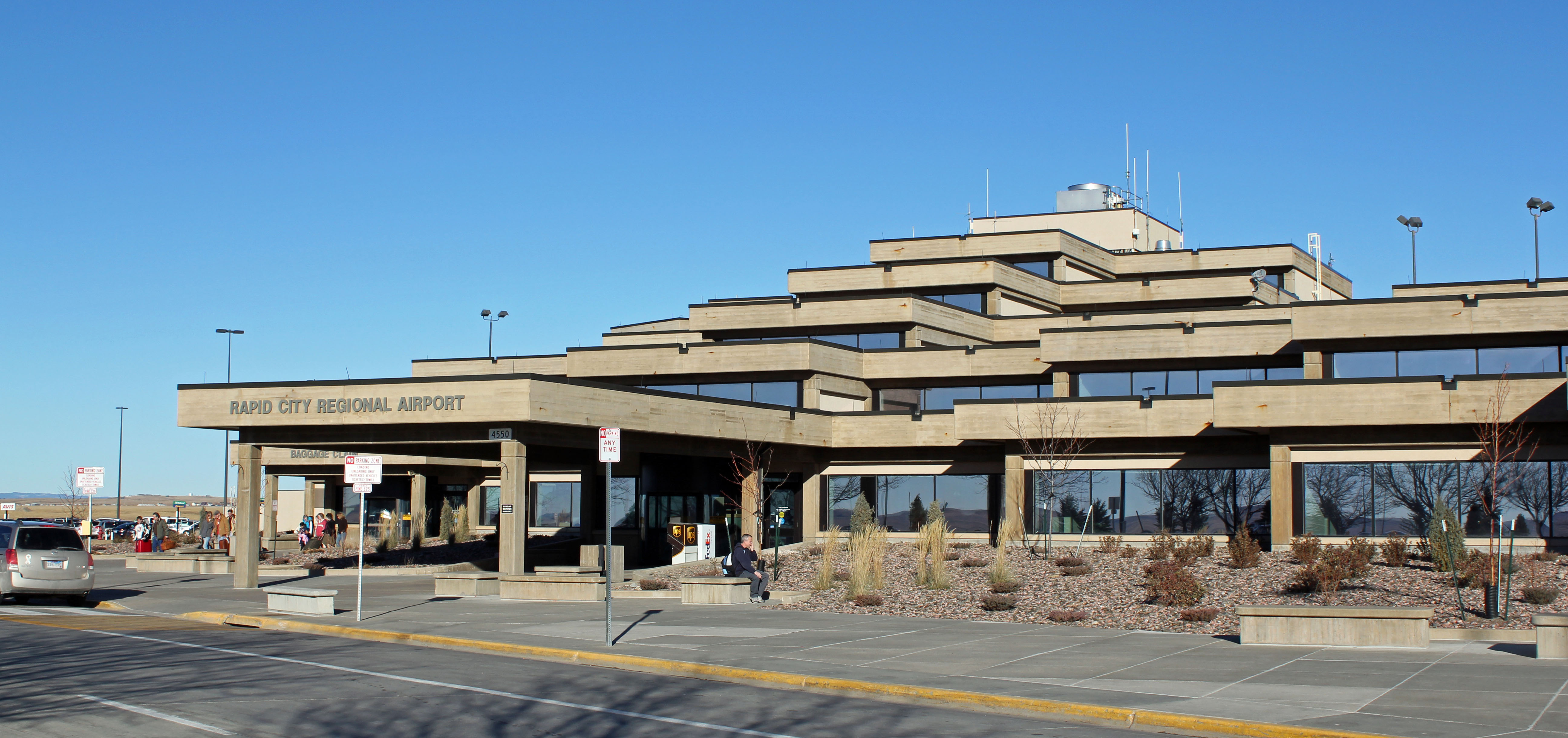 The Rapid City Regional Airport terminal building.